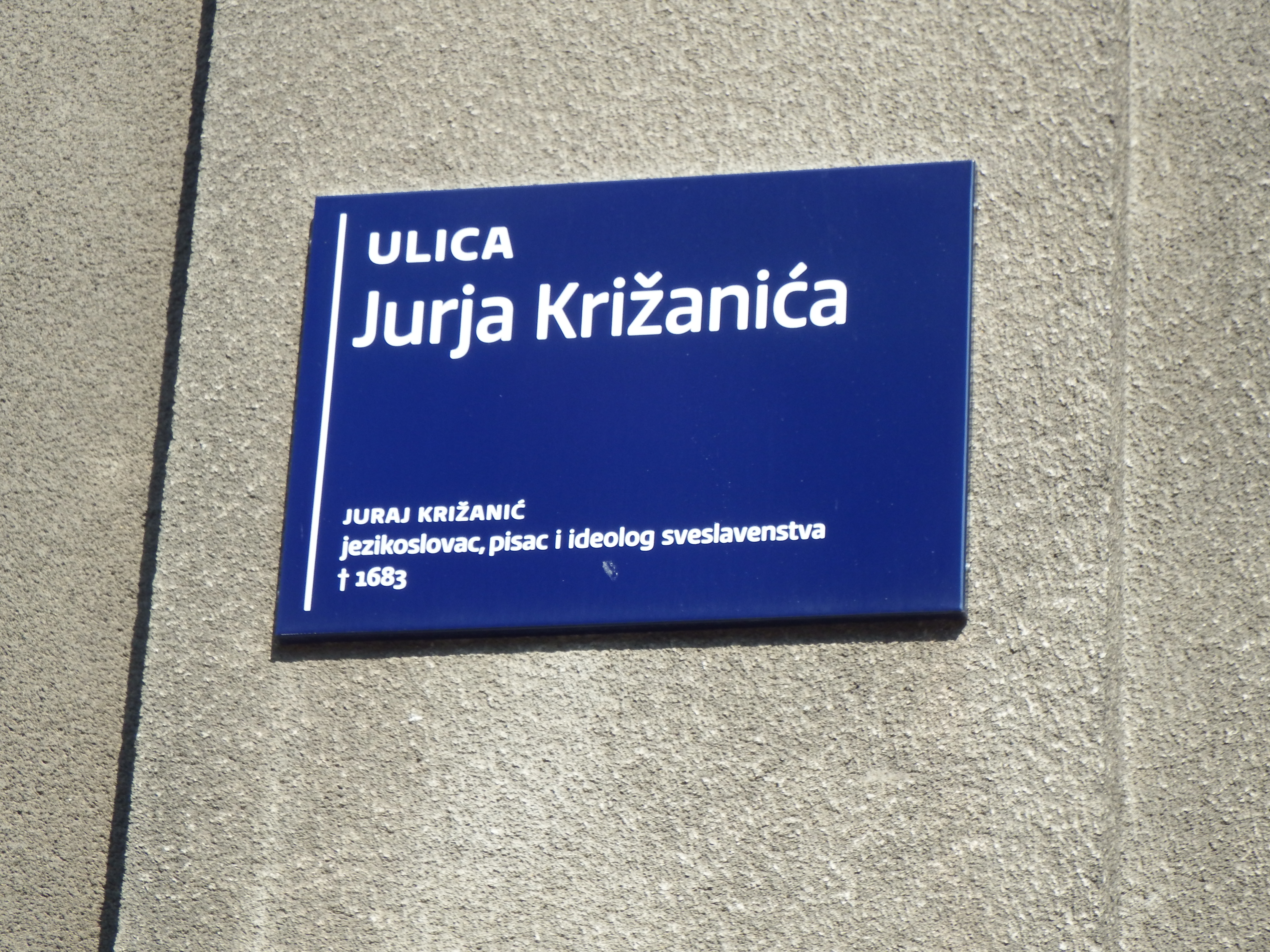 Juraj Krizanic street Zagreb Croatia